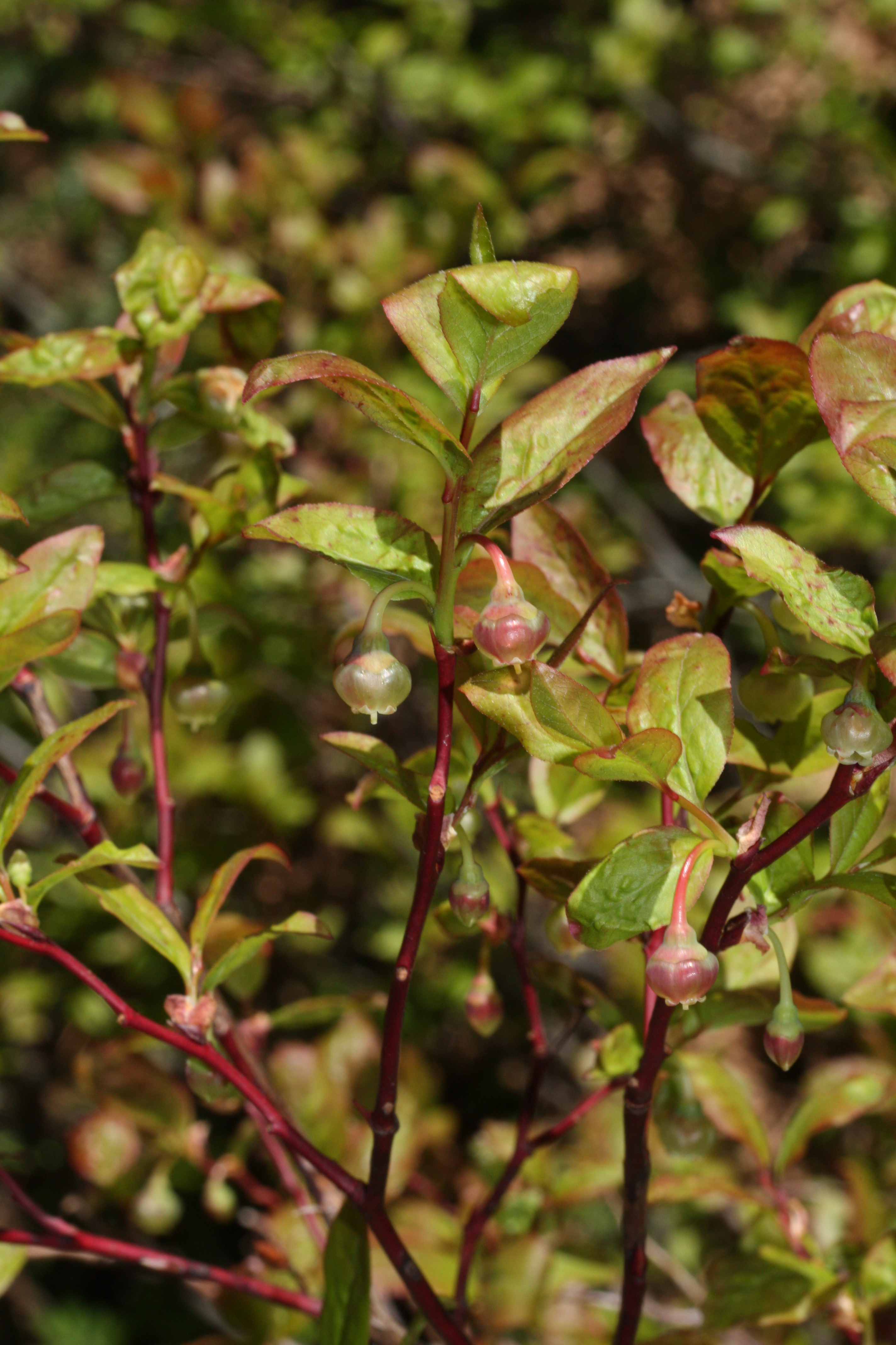 Alaska Blueberry